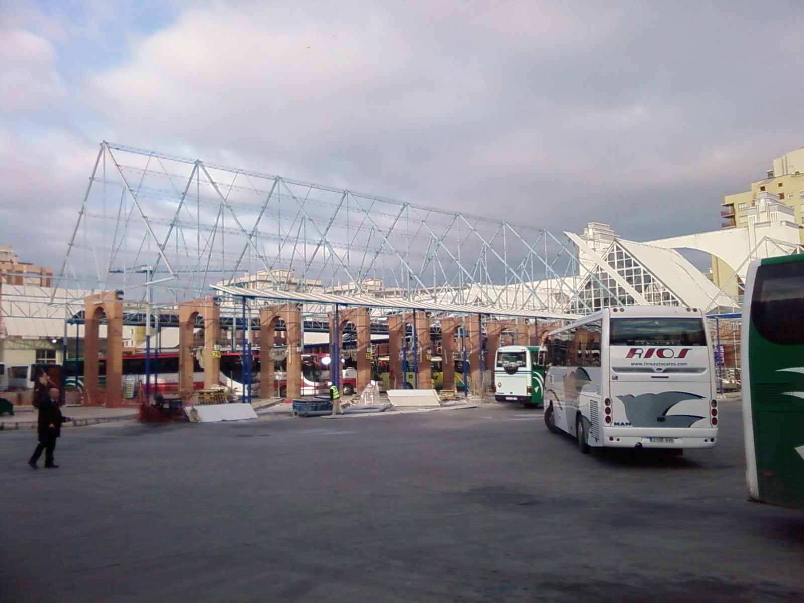 Roof of Malaga bus and coach station after tornado in 2009 (Spain)